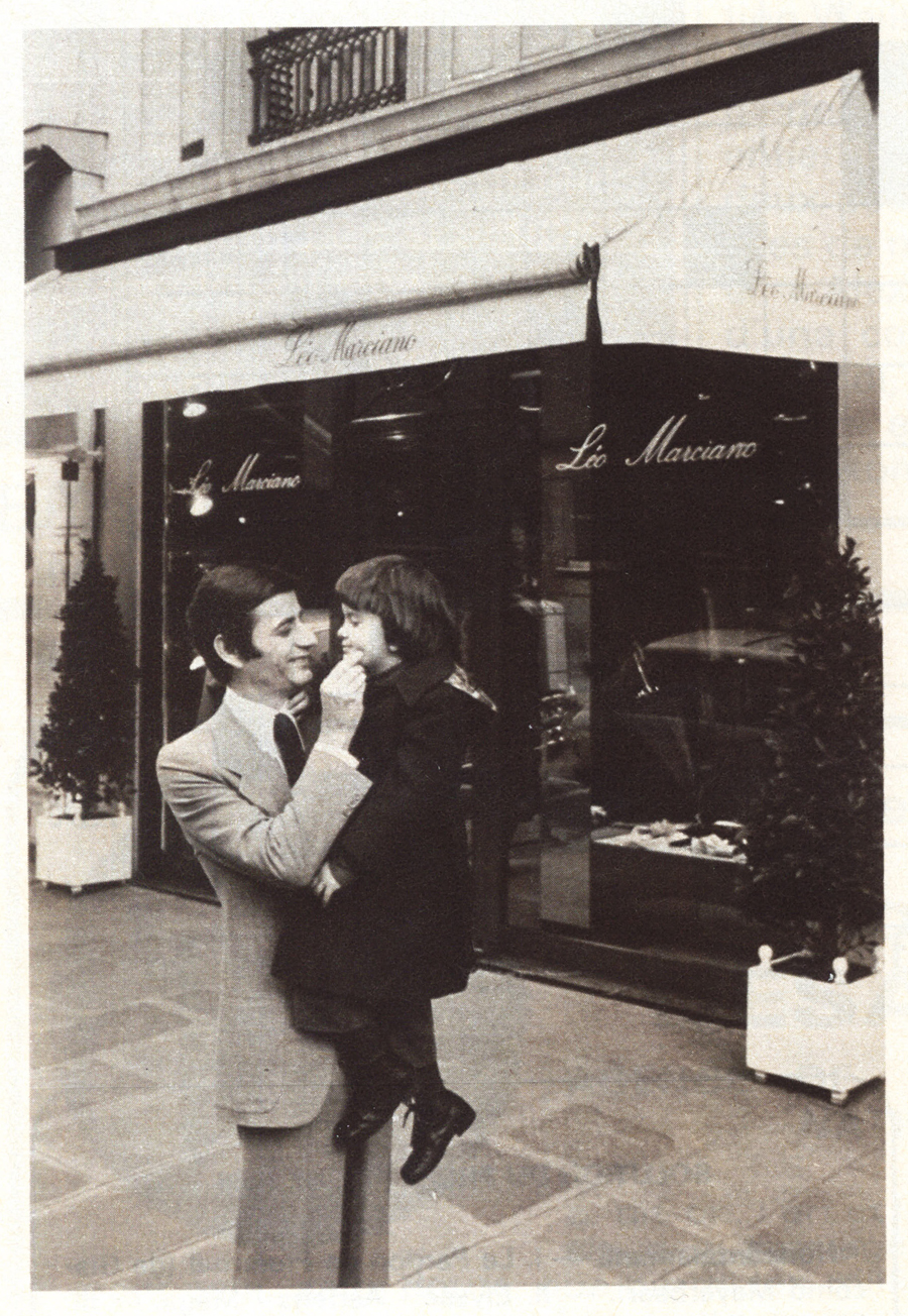 Leo Marciano Paris image of store